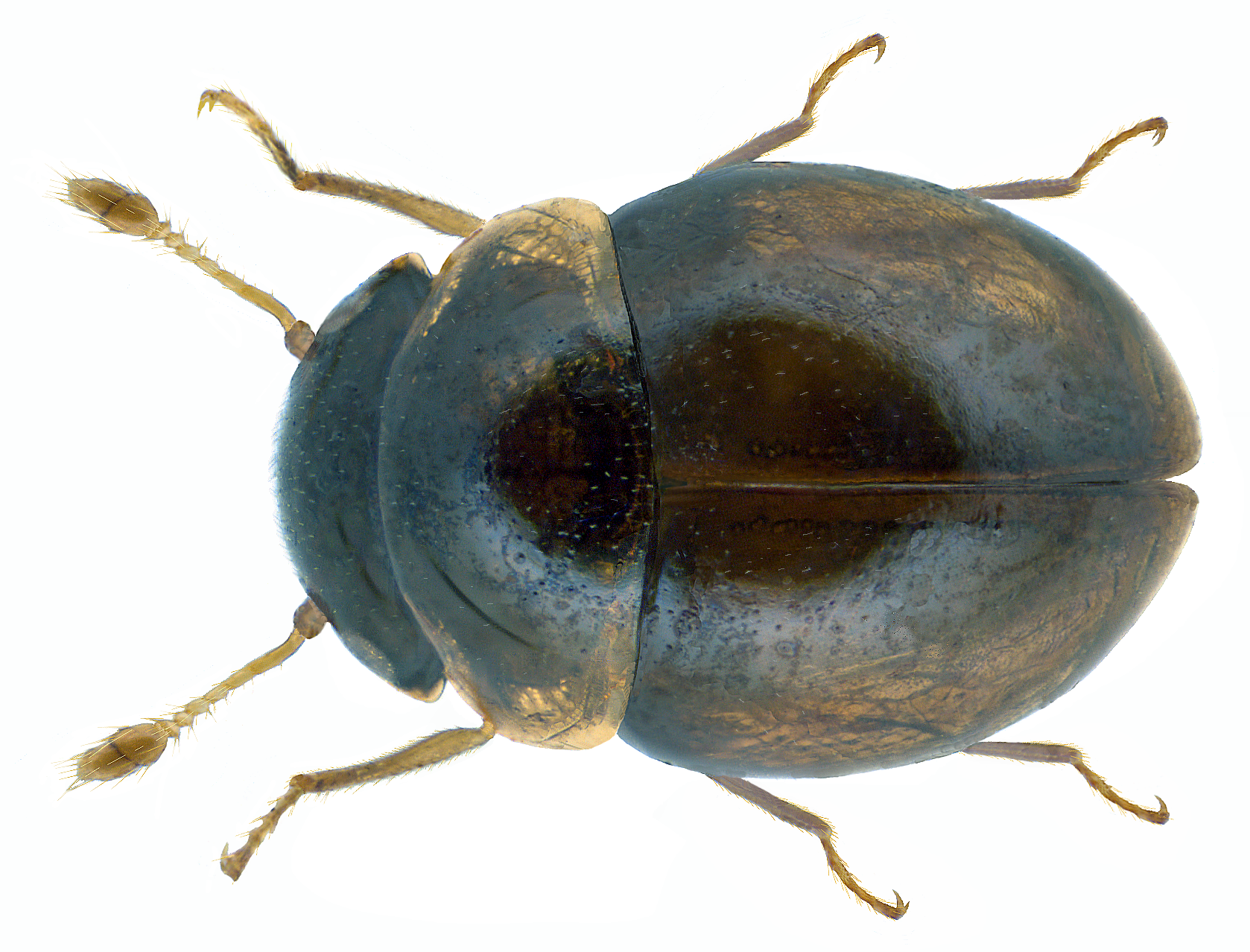 Family: Clambidae Size: 1,2 mm (1,0-1.4 mm) Origin: Europe Ecology: unknown way of life, for example under rotting leaves Location: Germany, Thuringia, Wolfsbehringen, Kindel leg. A.Weigel, 29.VII.2013: det. U.Schmidt, 2014 Photo: U.Schmidt, 2014